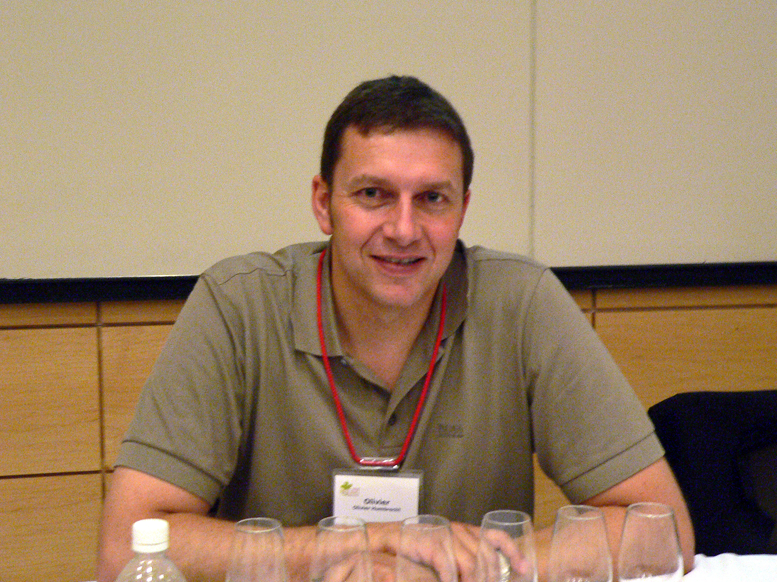 Family owner of Domaine Zind-Humbrecht in Alsace